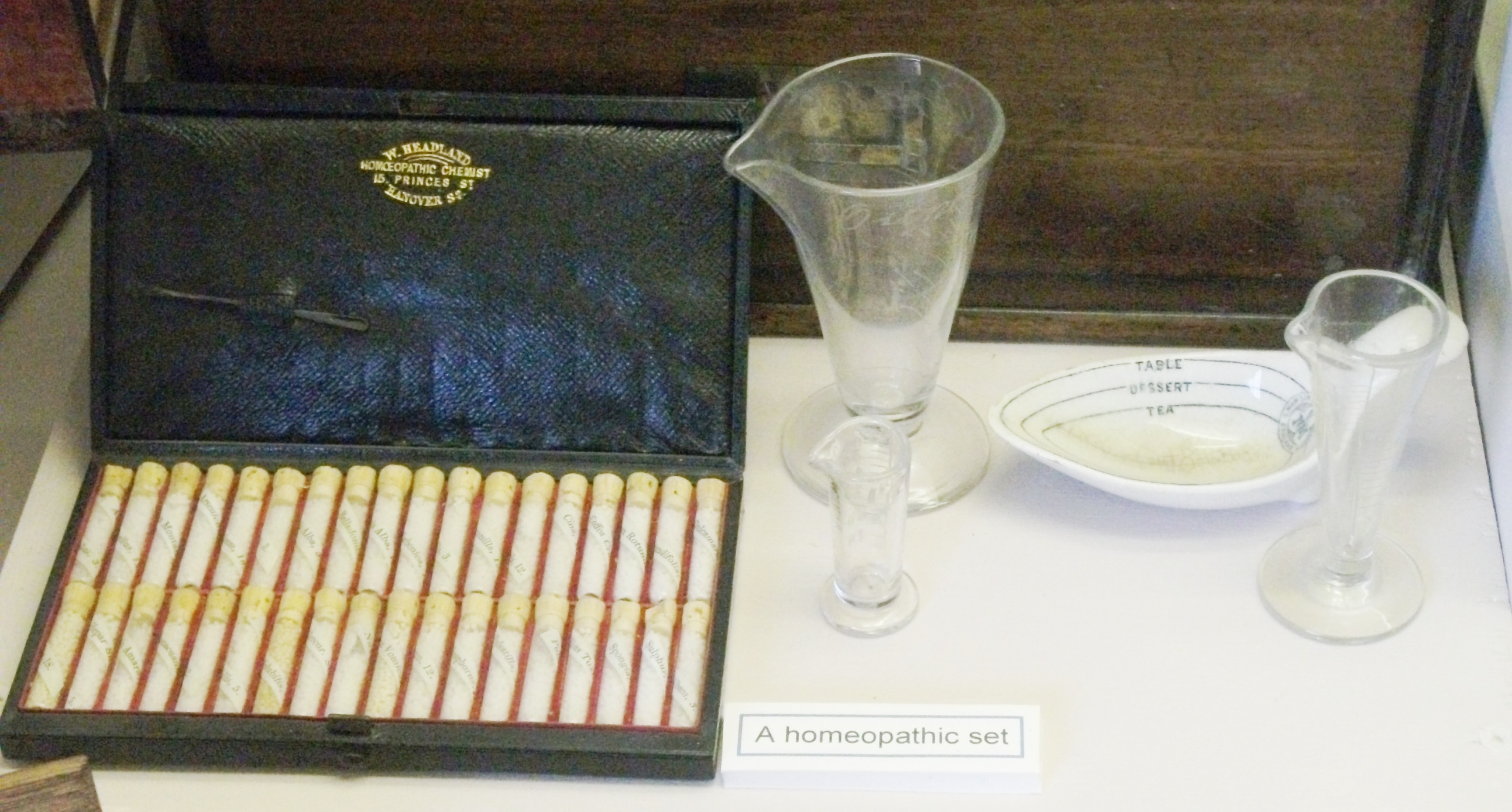 A homeopathic medicine set. On display at Bedford Museum